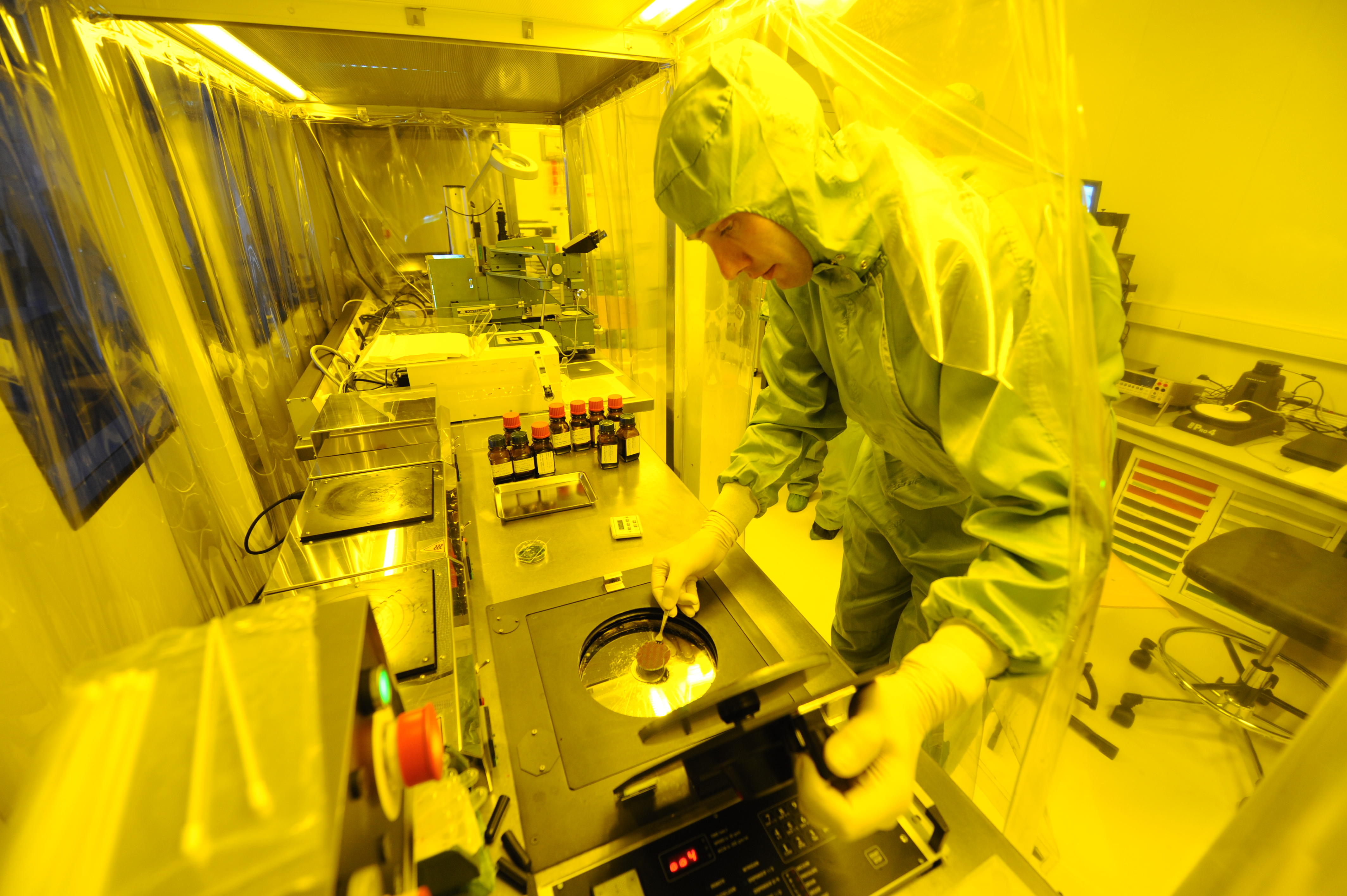 Salle blanche ENSIM